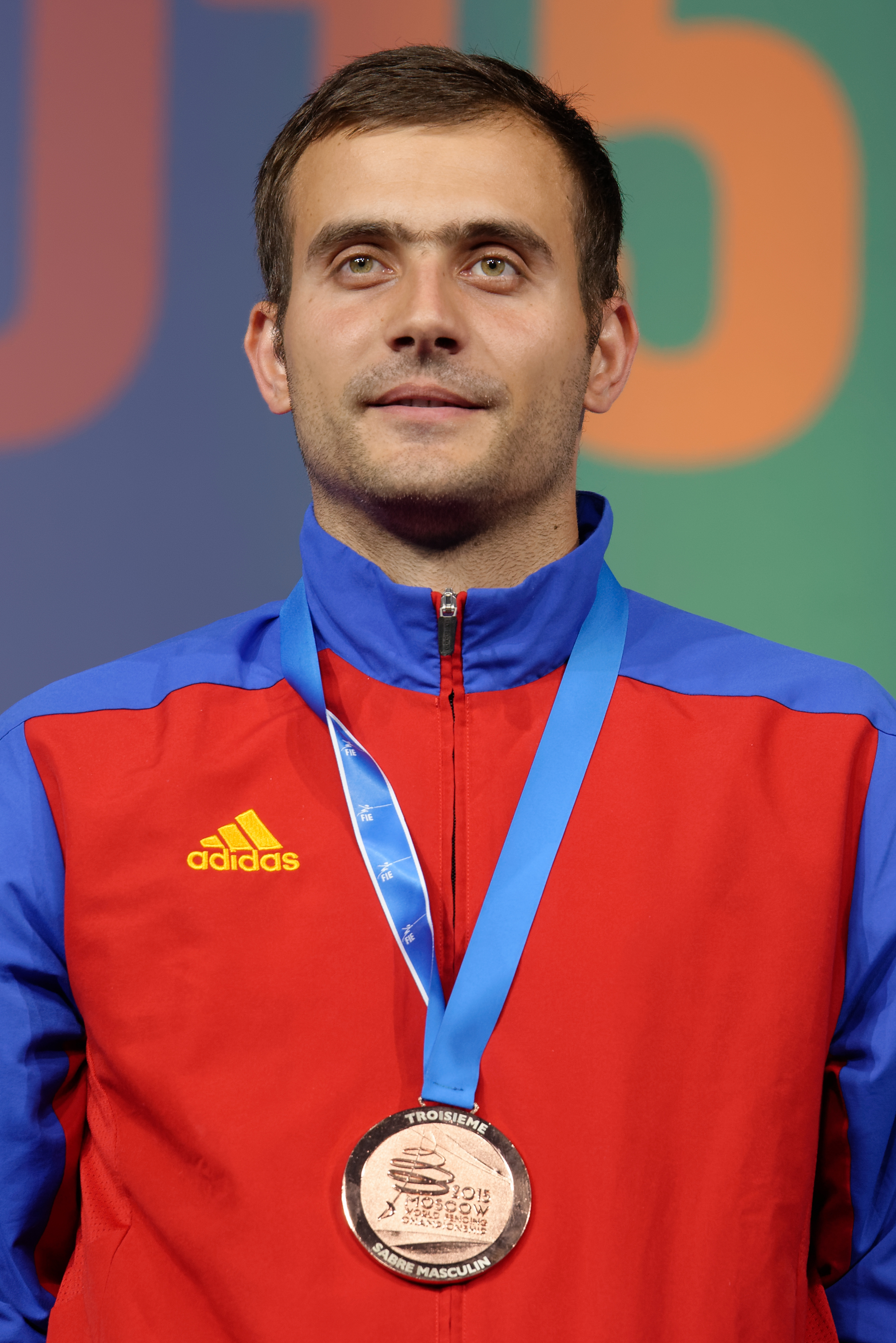 Romania's Tiberiu Dolniceanu at the medal ceremony for men's sabre at the 2015 World Fencing Championships on 14 July 2014 at the Olympic Stadium in Moscow.